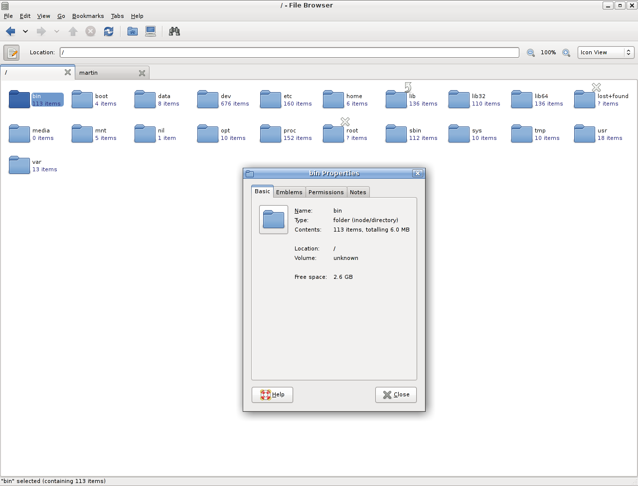 Browser window of nautilus with file properties opened